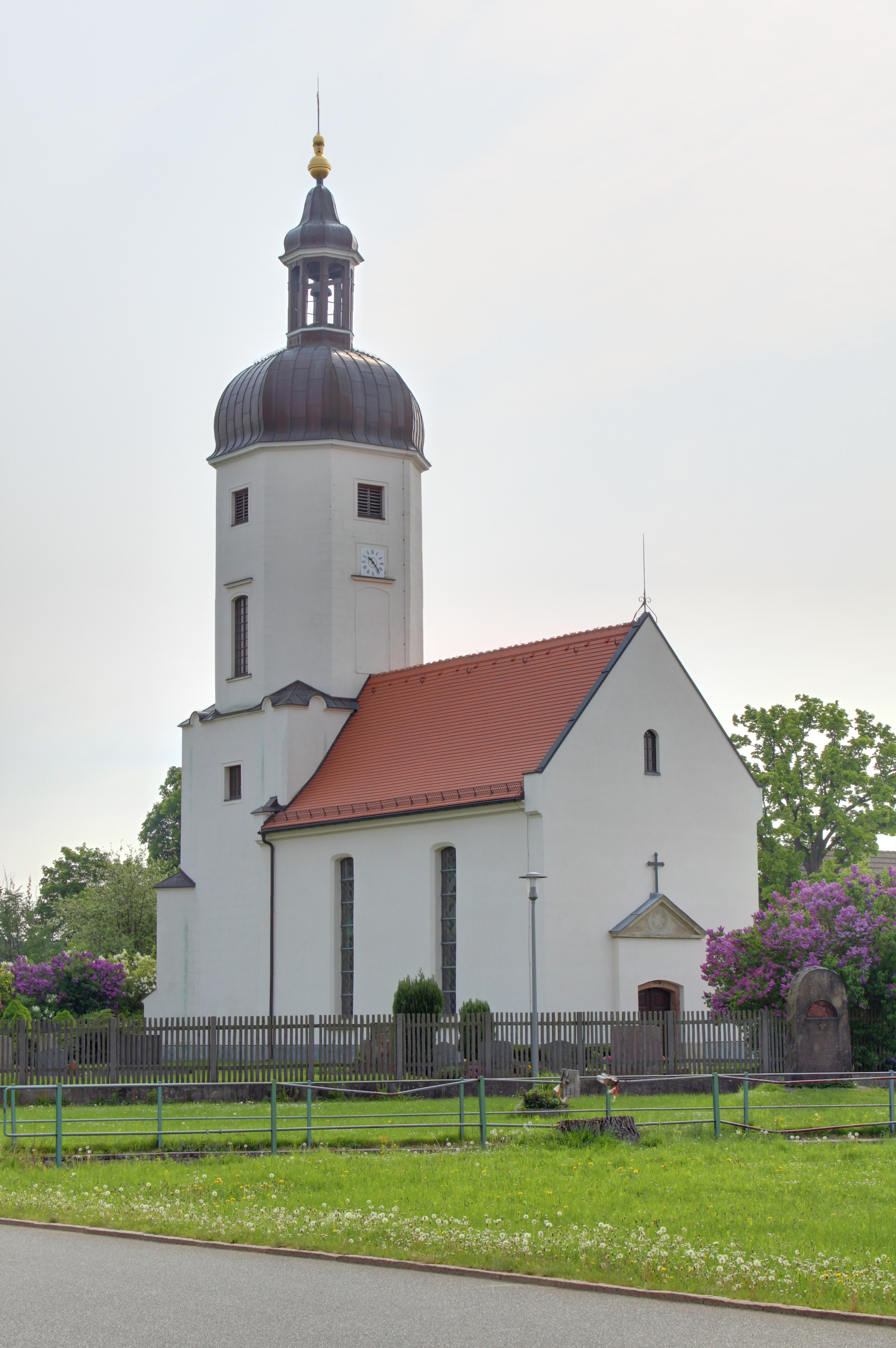 Village church to deer brook after redevelopment